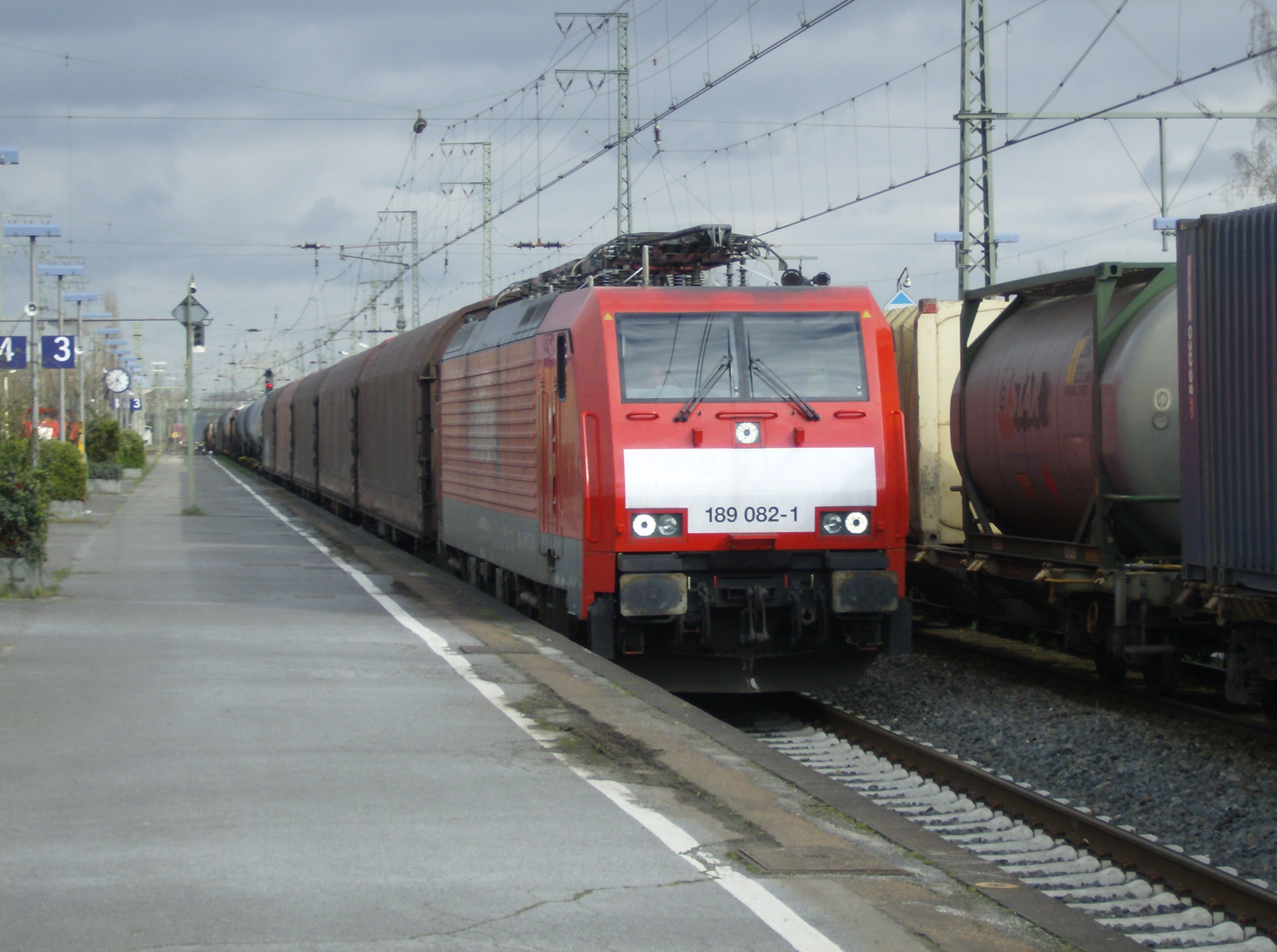 A Class 189 passes through Emmerich on a freight working